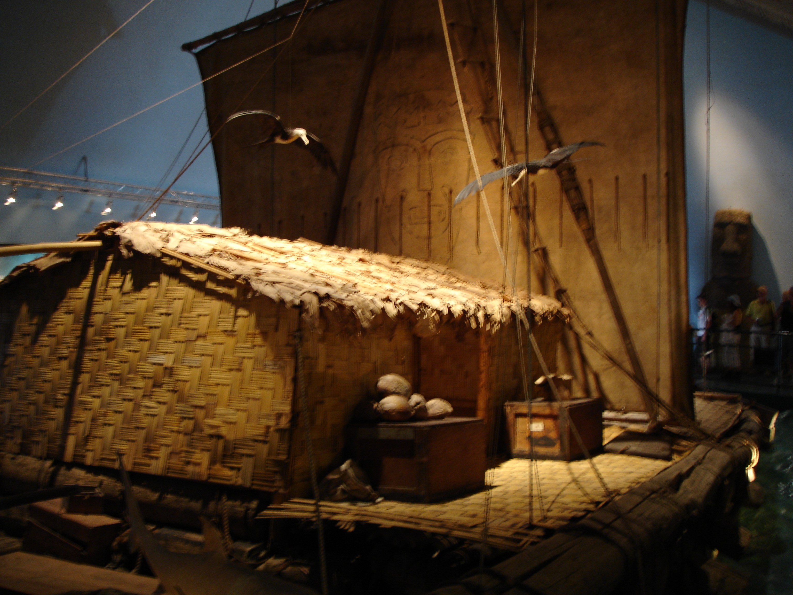 The Kon-Tiki expedition proved that people from ancient civilization of South America could have reached the Pacific islands with their contemporary type of watercrafts